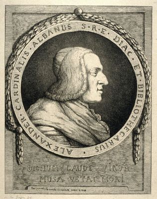 Cardinal Alessandro Albani (1692-1779), Fine Arts Museums of San Francisco